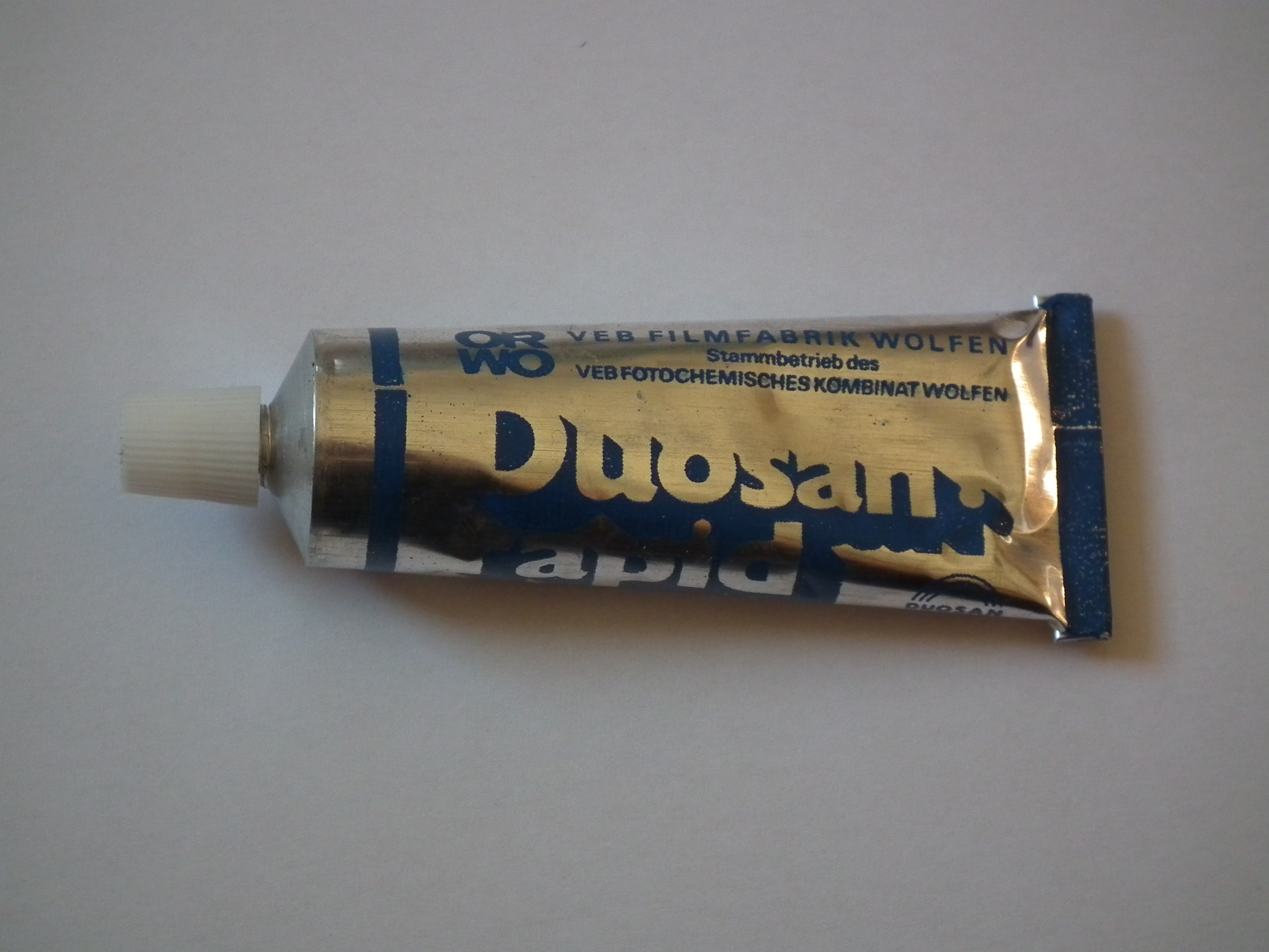 Adhesive Duosan rapid Tube front side